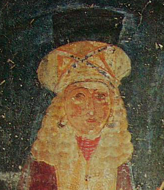 Anna Radene wearing the propoloma during her occupation of zoste patrikia in 1070.